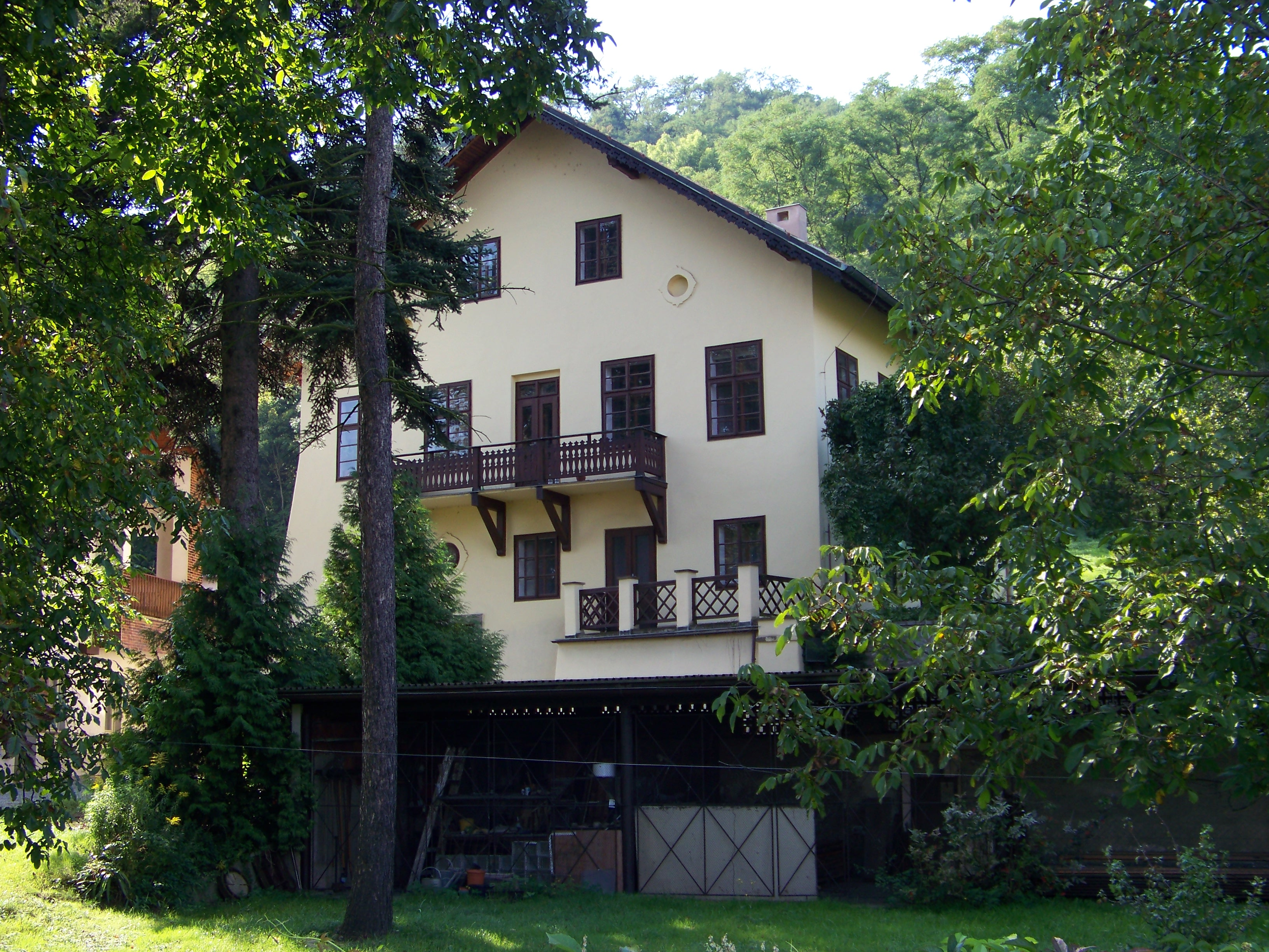 Prague-Dejvice, Czech Republic. Pod Paťankou 30/5, Majorka estate.